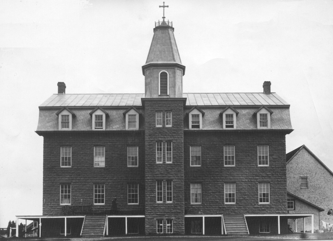 The Sacré-Cœur Collège in Caraquet, New Brunswick, soon after its construction, in 1898. From the Fidèle-Thériault collection.